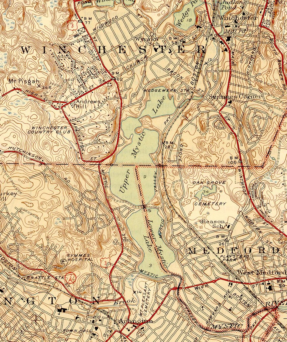 Map of the Mystic Lakes and environs in Winchester, Arlington, and Medford, Massachusetts, USA.